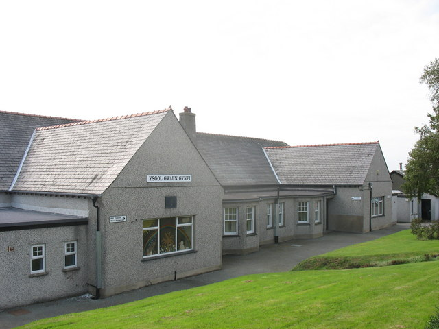 Ysgol Gwaen Gynfi, Deiniolen. My old Alma Mater. Built in 1927 it has 170 pupils and 7 teachers and its catchment area includes the villages of Deiniolen and Dinorwig and their surrounding rural areas.At 11 years of age pupils transfer to Ysgol Brynrefail, at Llanrug, 3 miles away. SH5363